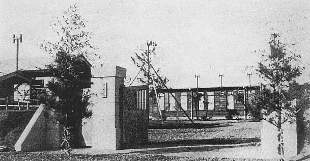 Kashiwa Army Hospital(present-day "Kashiwa City Hospital")